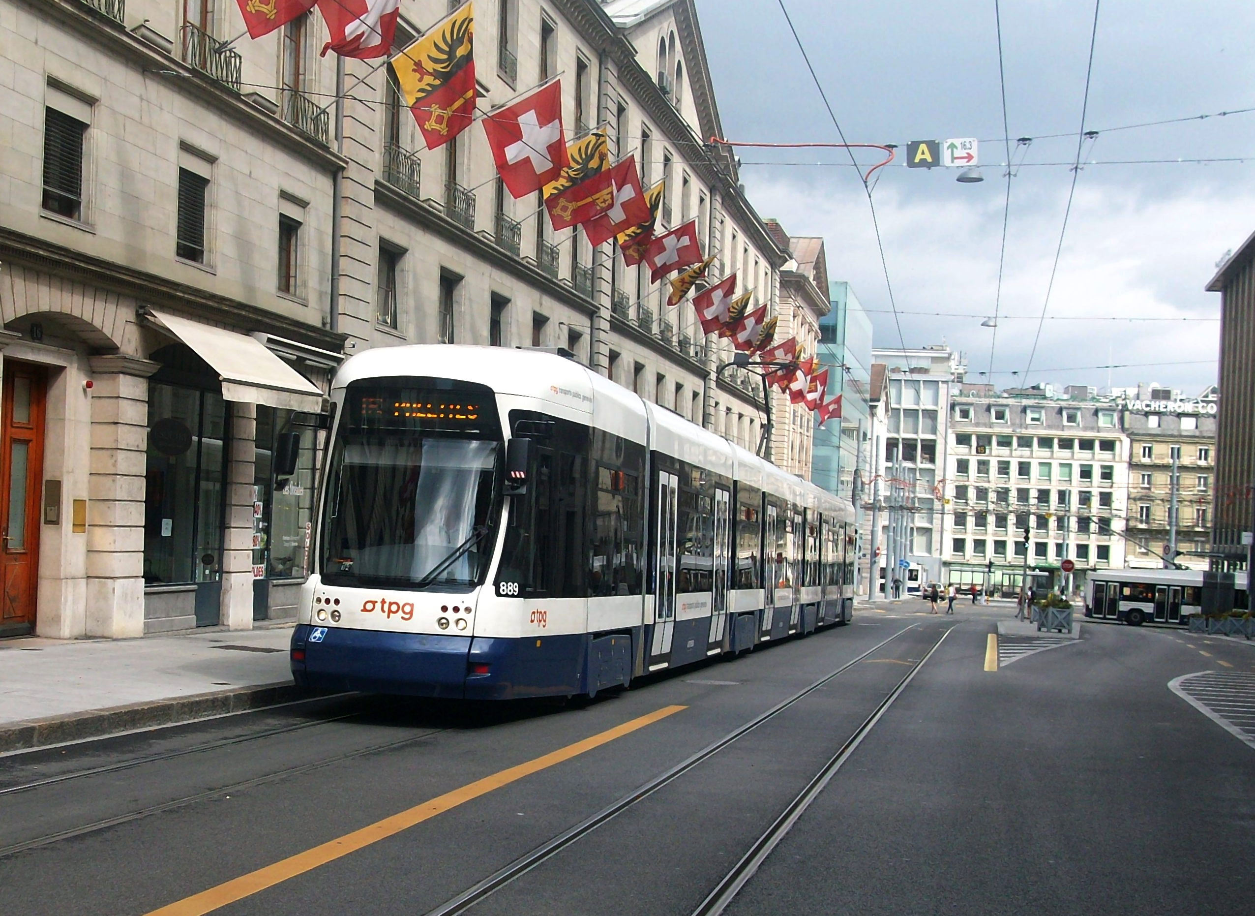 Bombardier Flexity Outlook Cityrunner (TPG), Geneva